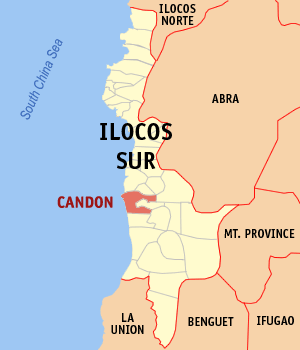 Map of Ilocos Sur showing the location of Candon